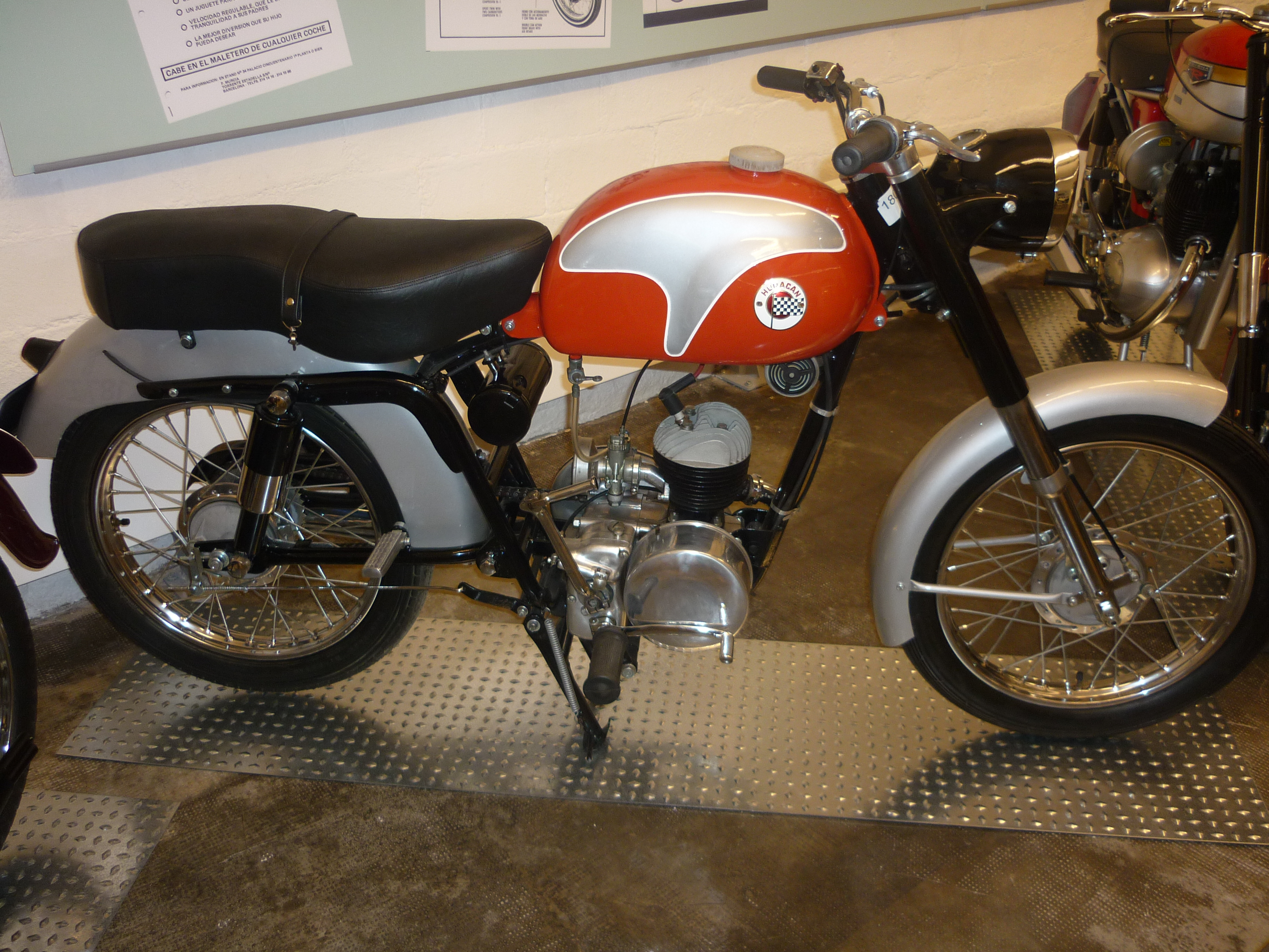 Huracan Oxford 125cc (1960). Museu de la Moto de Barcelona (Catalonia).